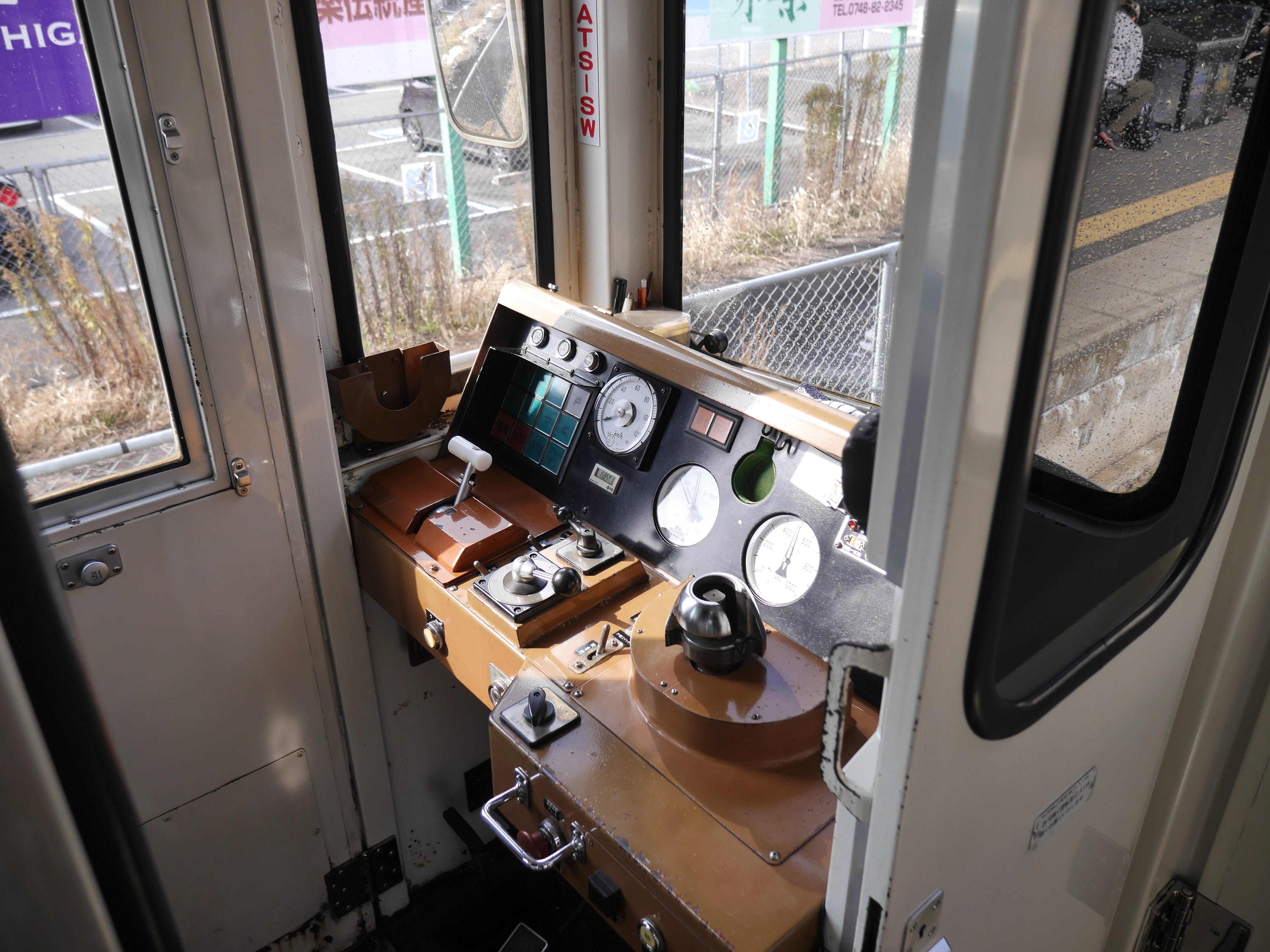 Driver's cabin, Shigaraki Kogen Railway SKR 205 DMU